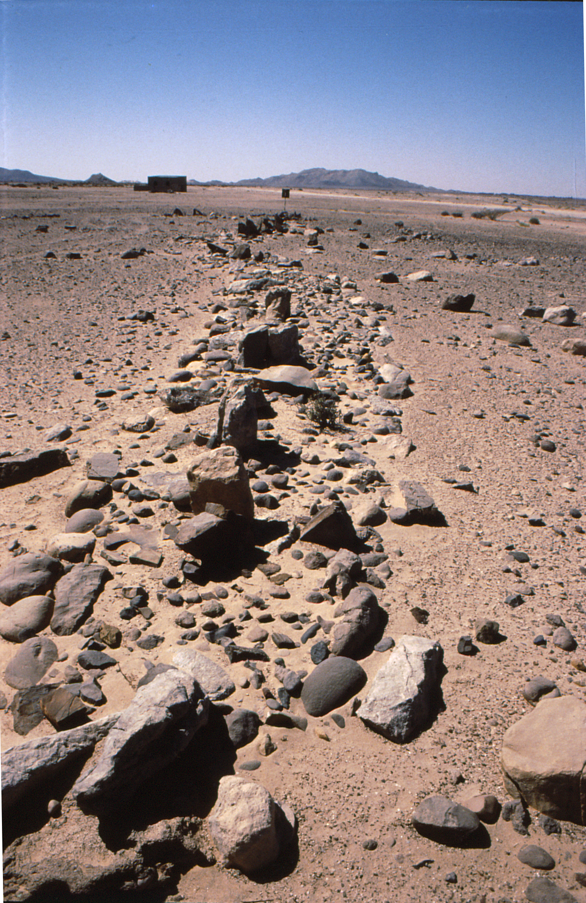 A trilith at the site called Yawabi in the Sur Wilayat.